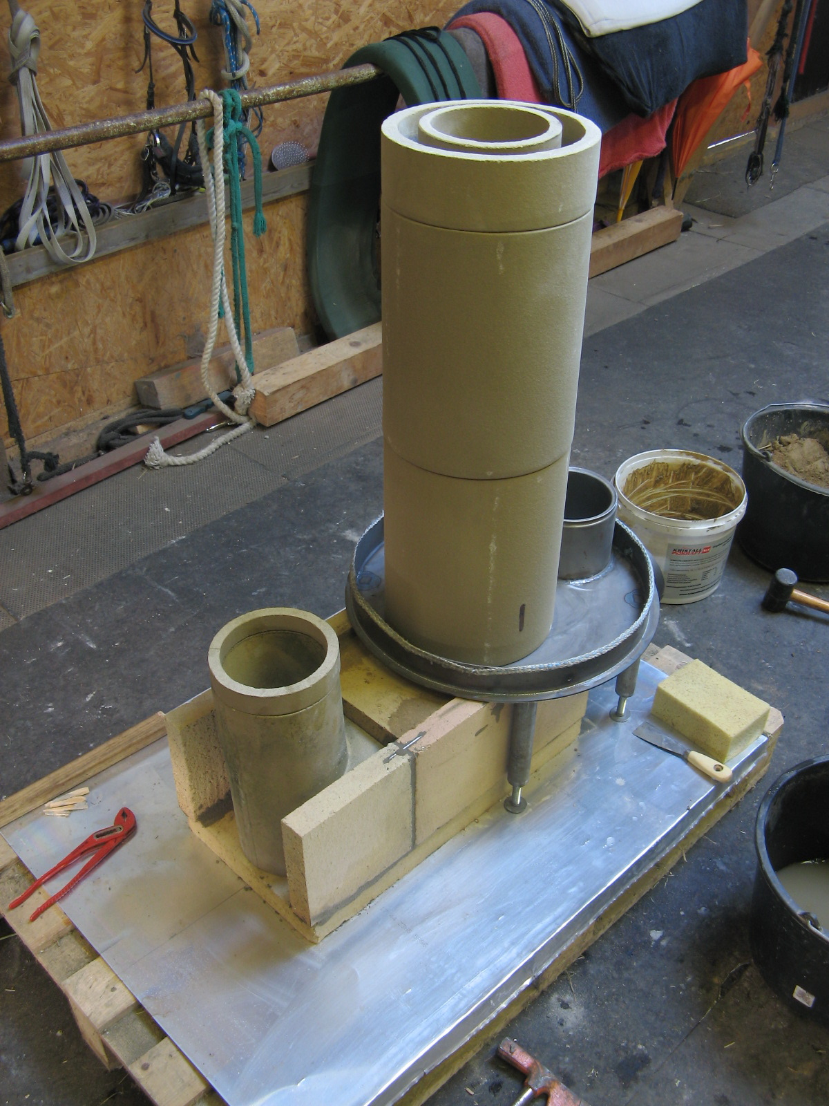 burningunite